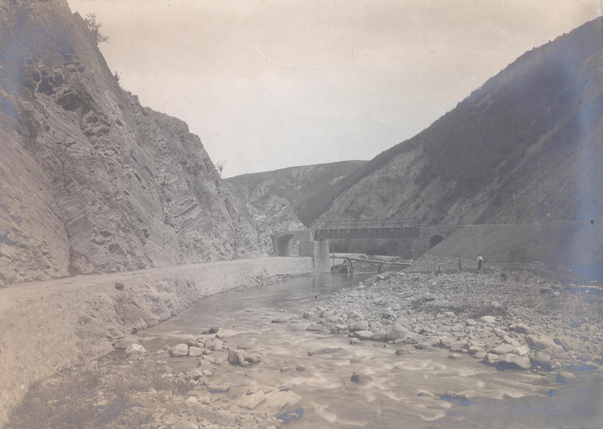 Septemvri-Dobrinishte narrow gauge line building, Bulgaria, km 6+800 the 1920's.